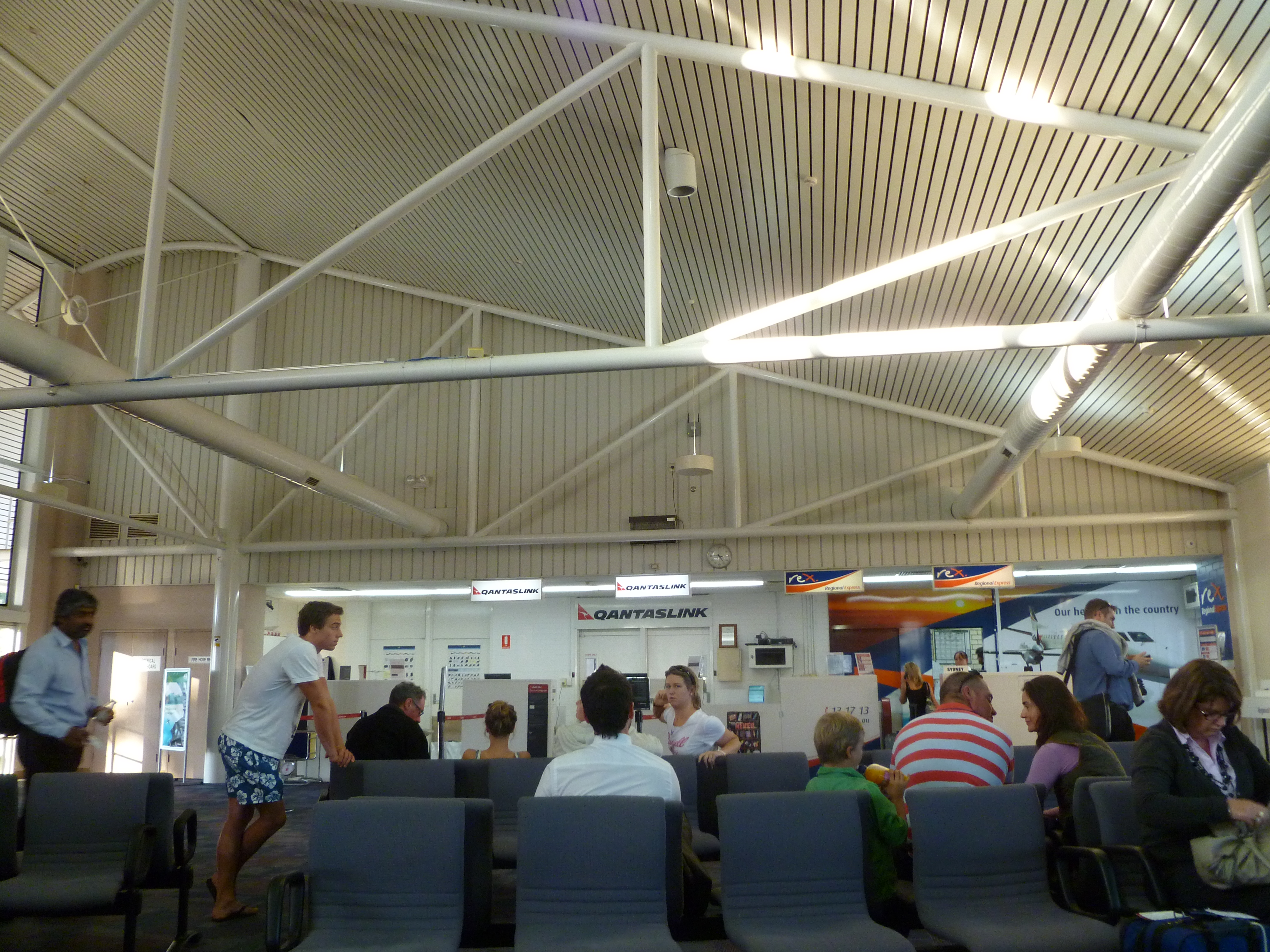 View from centre of terminal to northern end of terminal where check-in for both Regional Express (to the right) and QantasLink (to the left) occurs. The main terminal entry is to the left of the check-in counters and walkway to the gate is to the right.